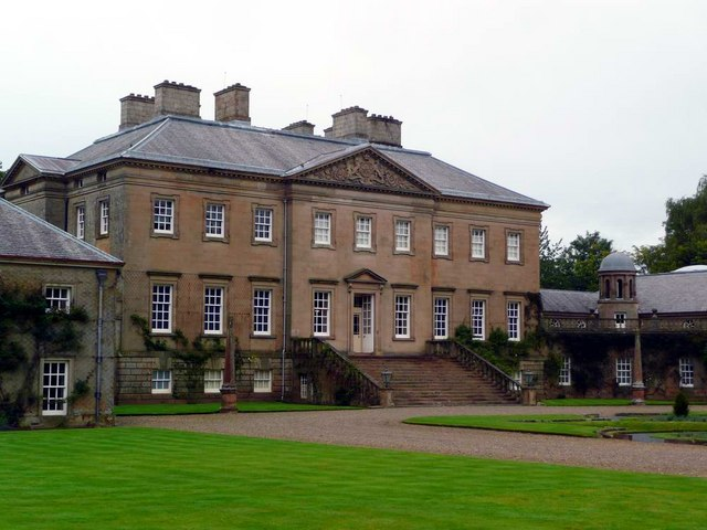 Dumfries House - frontage Dumfries House is an A-listed Palladian mansion built between 1754 and 1760 for the 5th earl of Dumfries by the architect brothers John, Robert and James Adam. The house came by marriage into the ownership of the 1st Marquess of Bute in 1803; it was put up for sale by John Dumfries, the 6th Marquess, and in 2007 purchased by a consortium led by HRH The Prince of Wales, Duke of Rothesay.